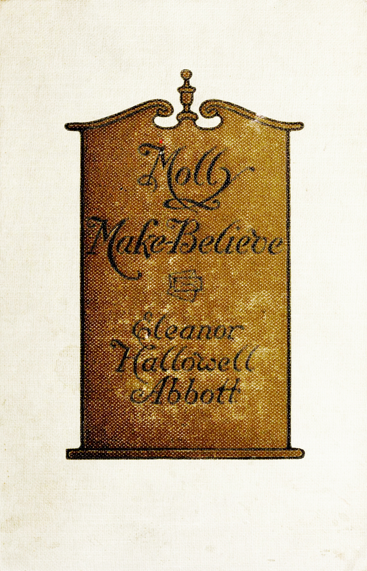 Molly Make-Believe by Eleanor Hallowell Abbott, 1st ed cover